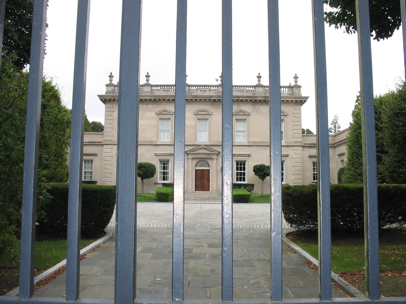 Clarendon Court — a mansion in Newport, Rhode Island (626 Bellevue Avenue, at Yznaga Avenue)